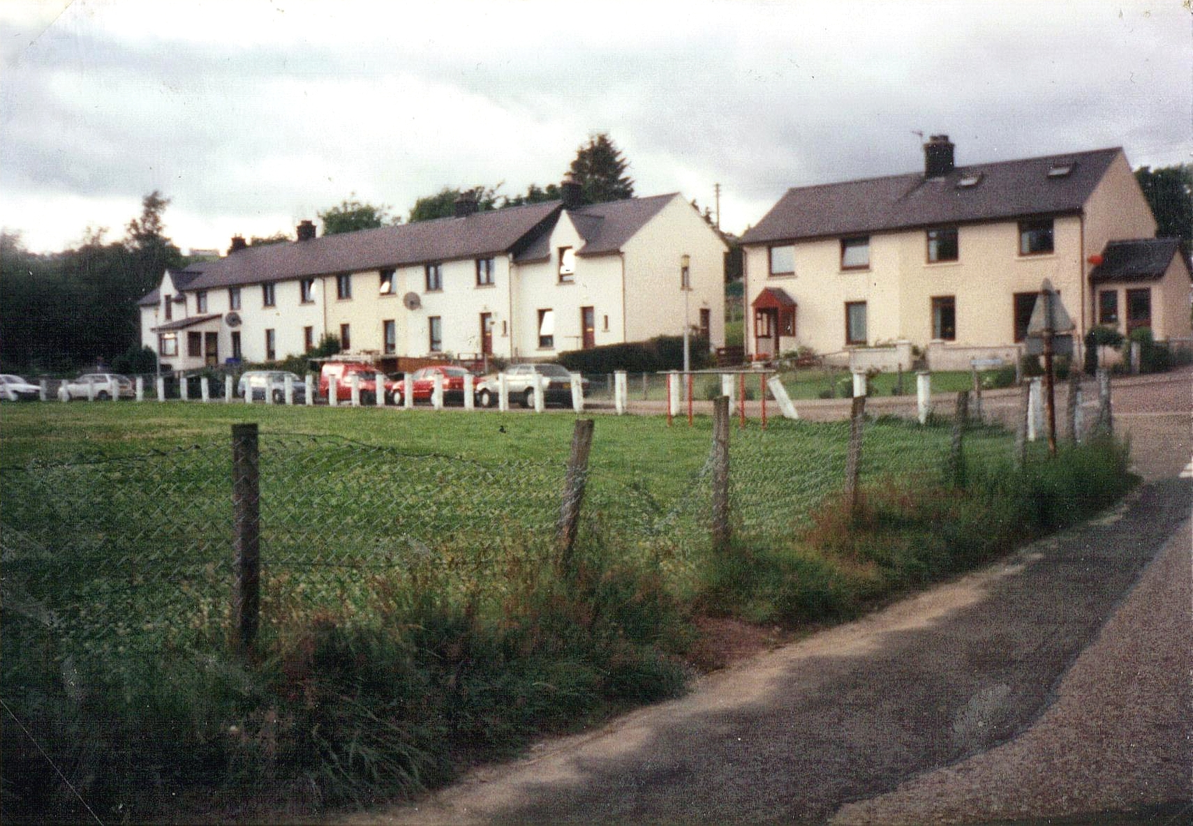 I took this picture of Balnain vilage my self in the year 1996 and donate it to the public domain.